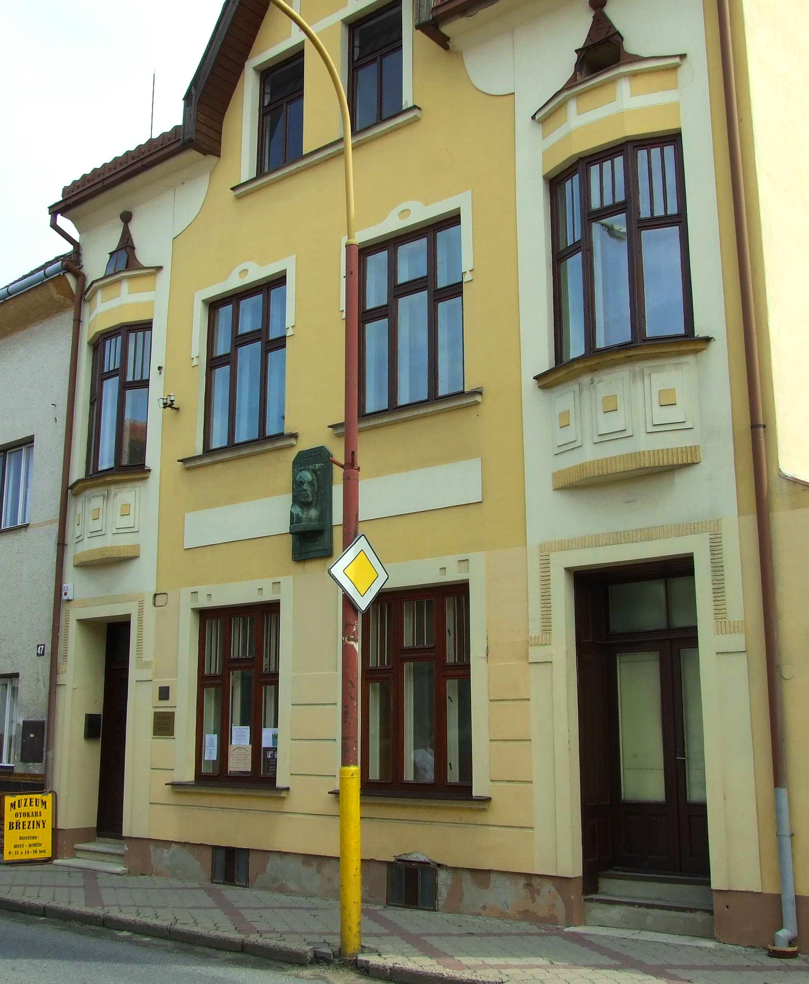 Otokar Březina's Museum in Jaroměřice nad Rokytnou (Czech Republic, Vysočina Region)